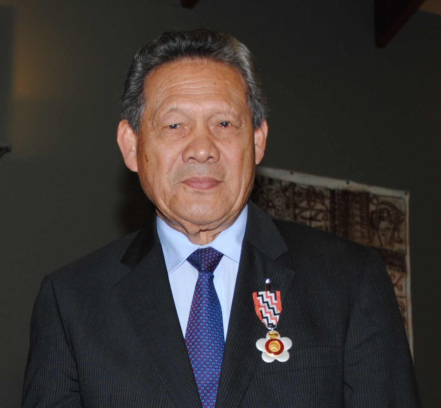 Joe Williams, former Cook Islands Prime Minister, in 2011